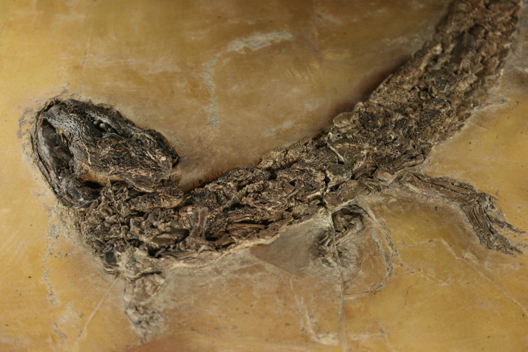 fossil of the extinct Eocene Crocodile Hassiacosuchus haupti (jr synonym Allognathosuchus haupti) from Messel, Naturhistorischen Museum Basel